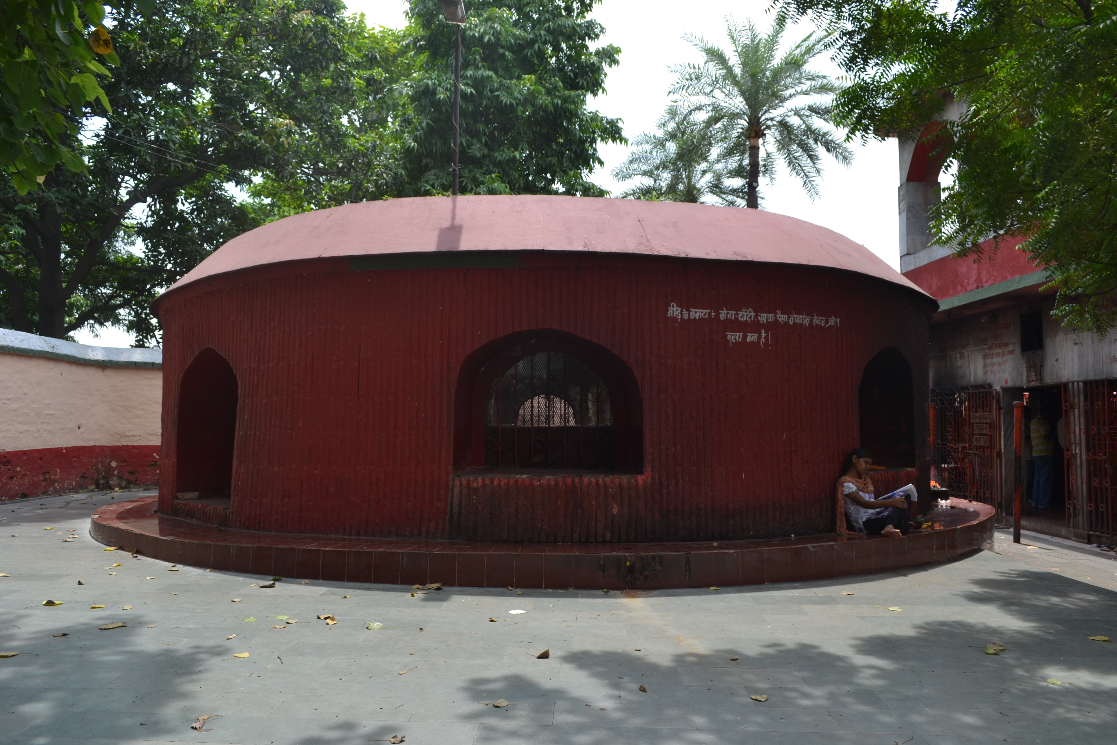 Agamkuan Gulzarbagh, Patna City